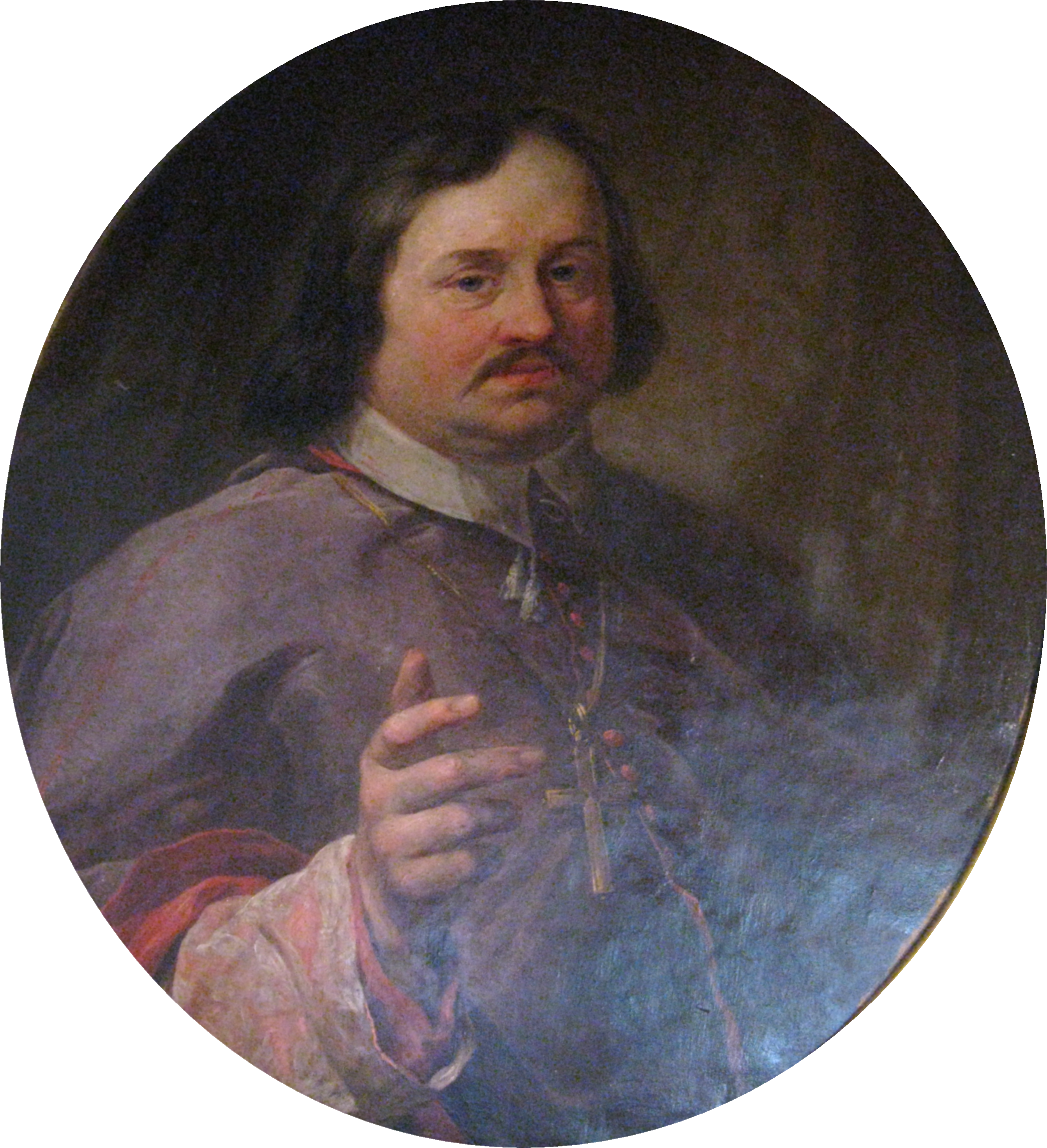 Portrait of Kazimierz Florian Czartoryski (1620-1674)